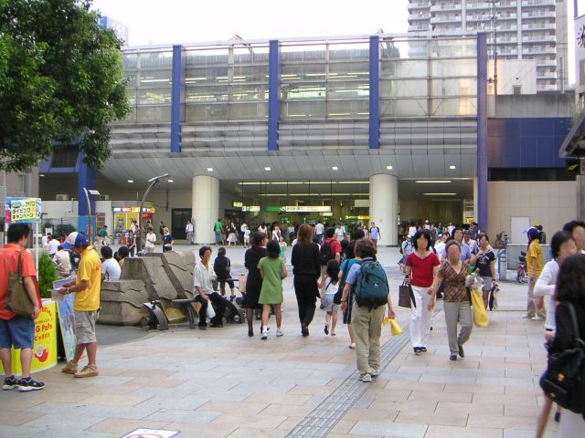 East Exit of Akabane Station